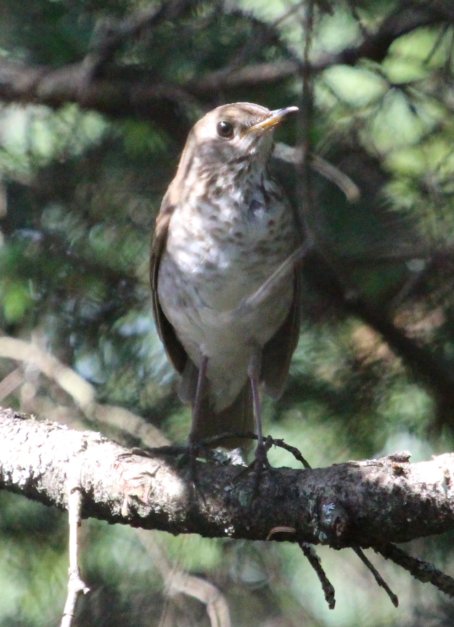 Bicknell's Thrush Catharus bicknelli, on top of Cannon Mountain, Franconia Notch State Park, Grafton County, New Hampshire.